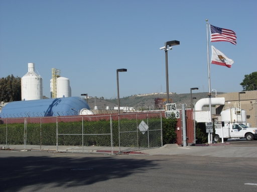 Entrance of Pump Station 64 on Roselle Street in Sorrento Valley, San Diego, California.